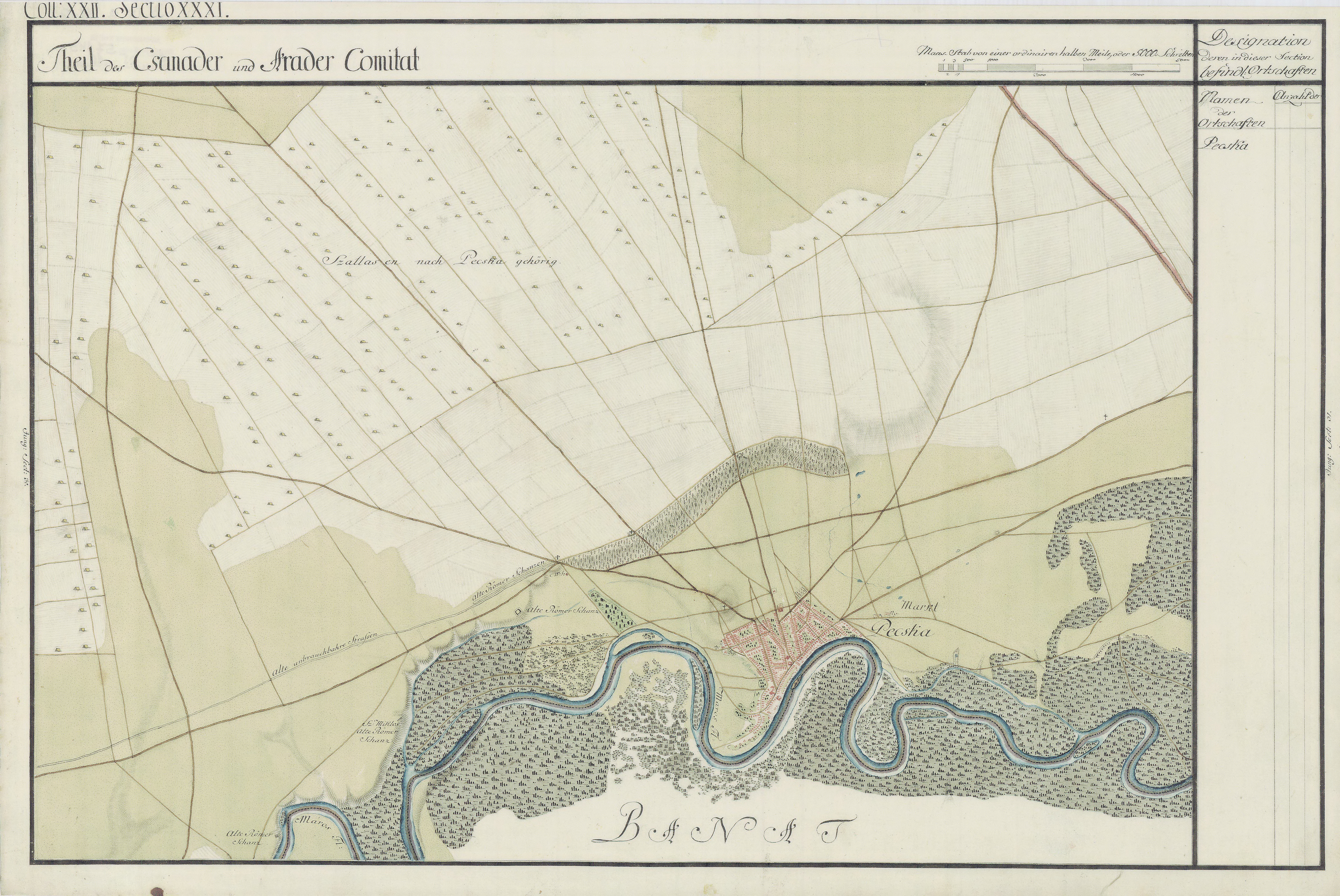 Arad County, 1782-85. Josephinische Landesaufnahme pg.22-31